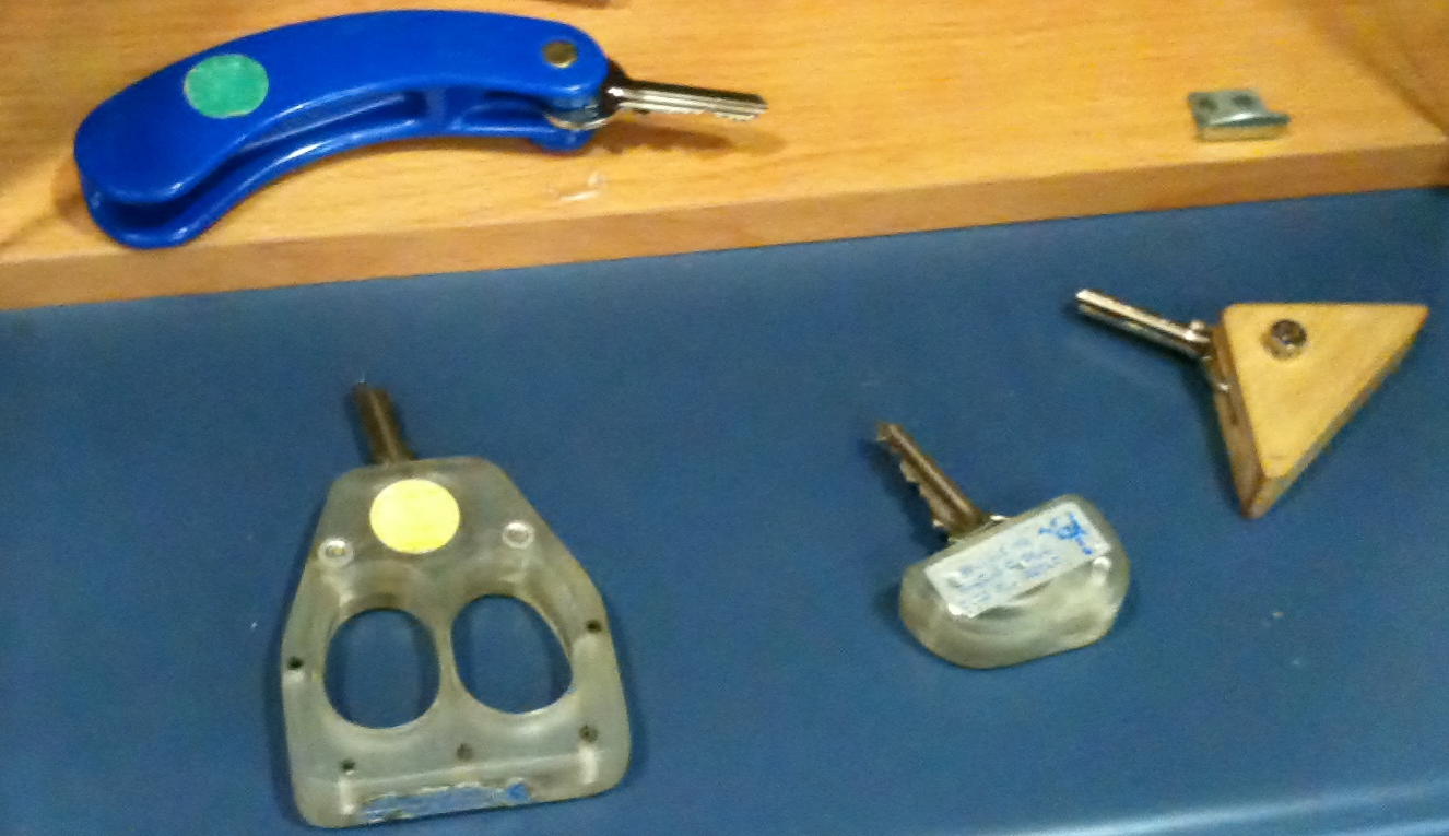 Key handle for the disabled, MILBAT Association, Israel